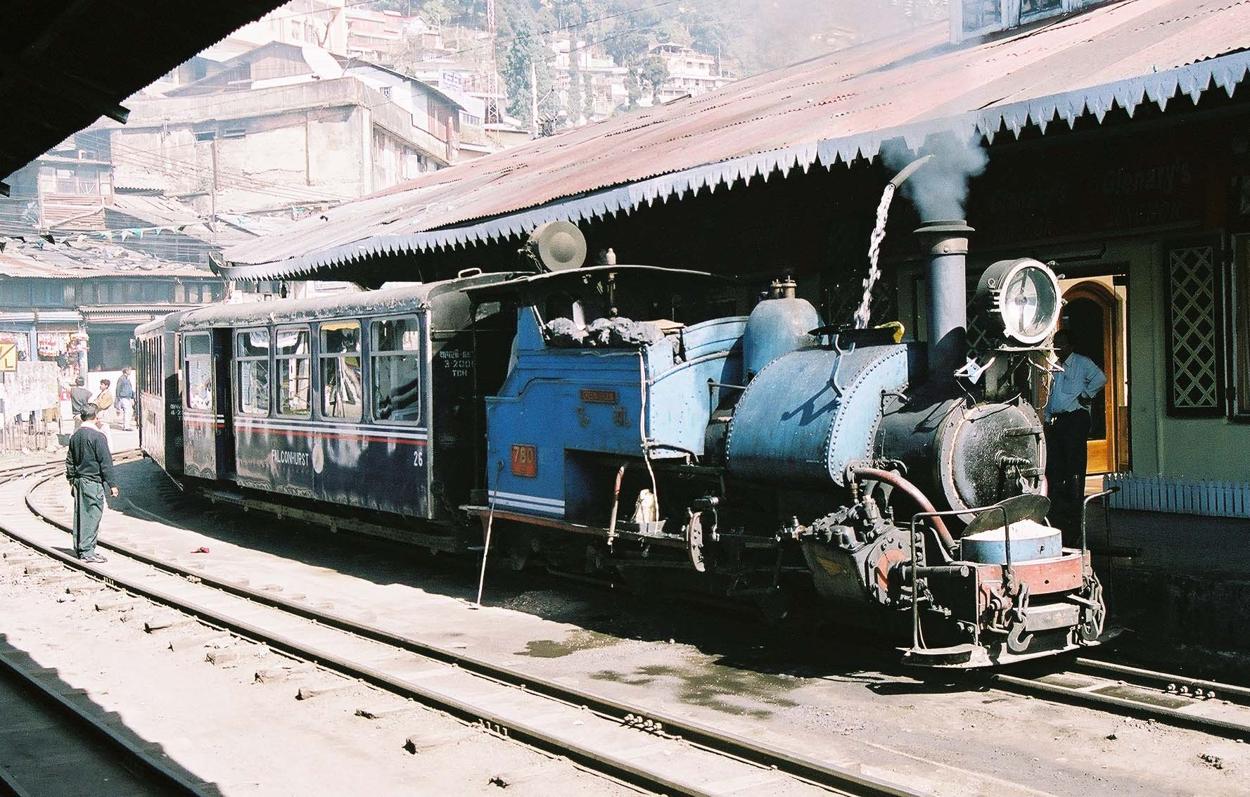 DHR Locomotives 780, with an excursion train, at Kurseong Station. The station is a dead end so that the train must reverse before continuing to Darjeeling. 20th February 2005 Photographer - A.M.Hurrell Camera - Minolta X700 (35mm film) Modified - Scanned by film developer. File size and definition changed using Adobe Photoshop 5.0LE